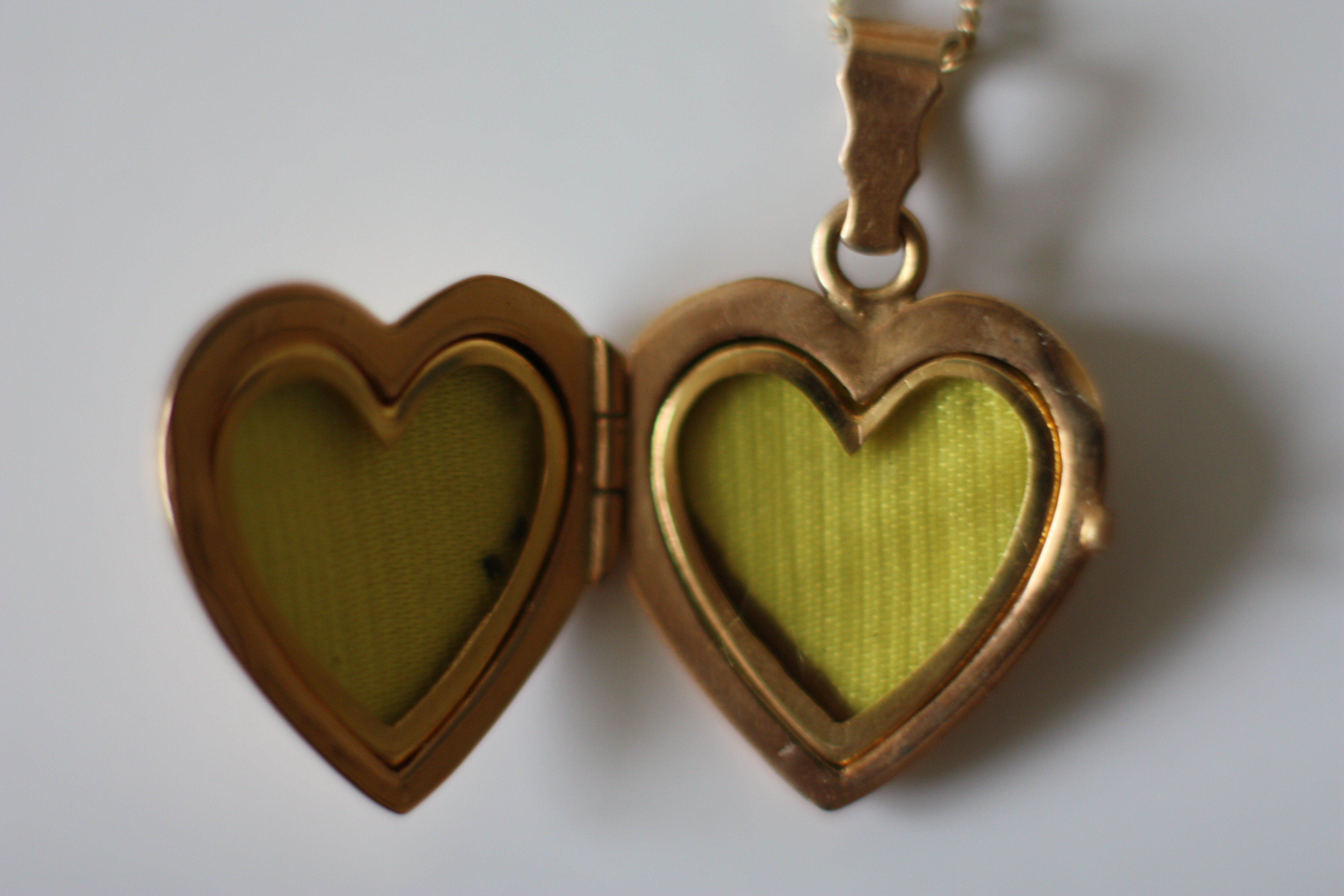 Locket